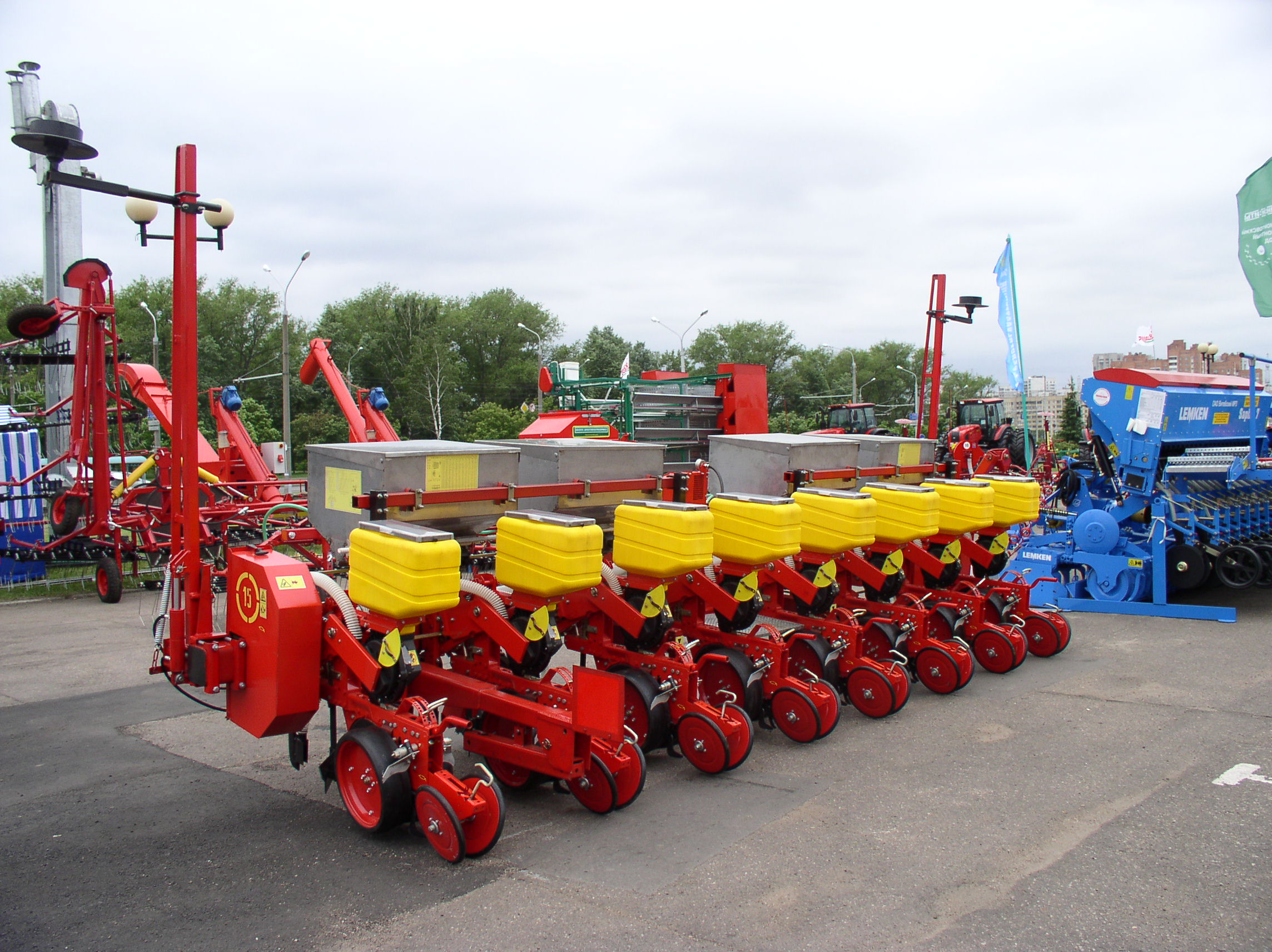 Machinery. Agriculture Expo in Minsk, Belarus.